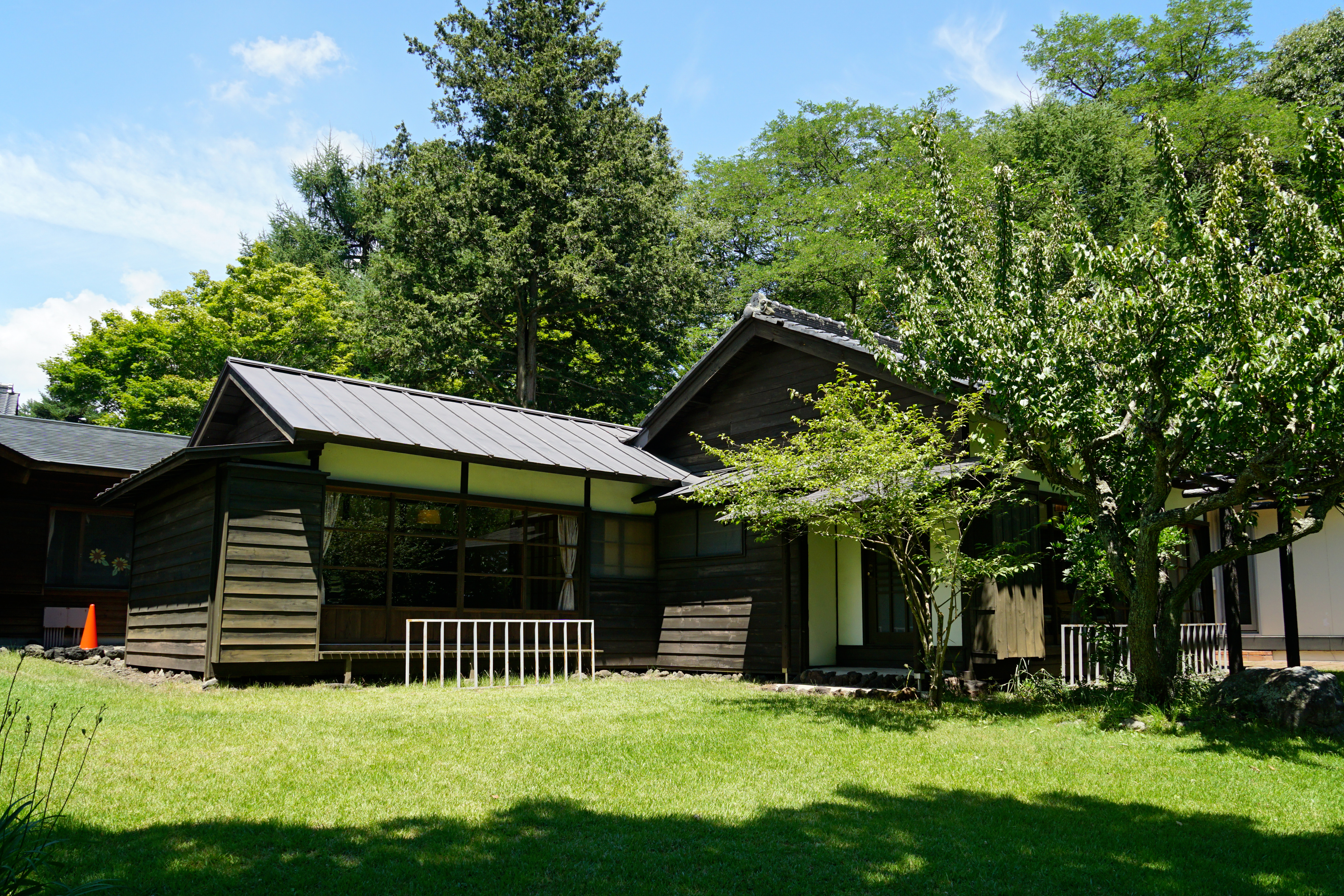 Tatsuo Hori literature Memorial in Karuizawa, Nagano prefecture, Japan.